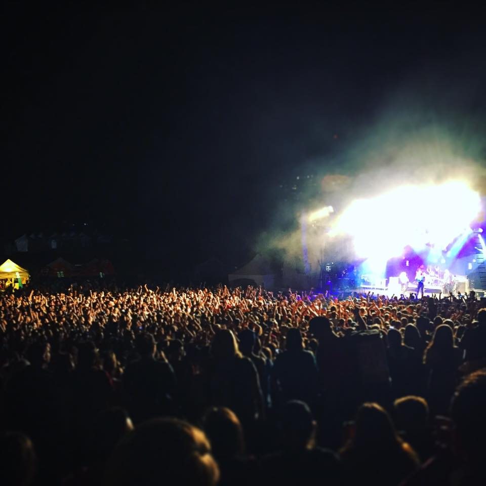 festival crowd at night